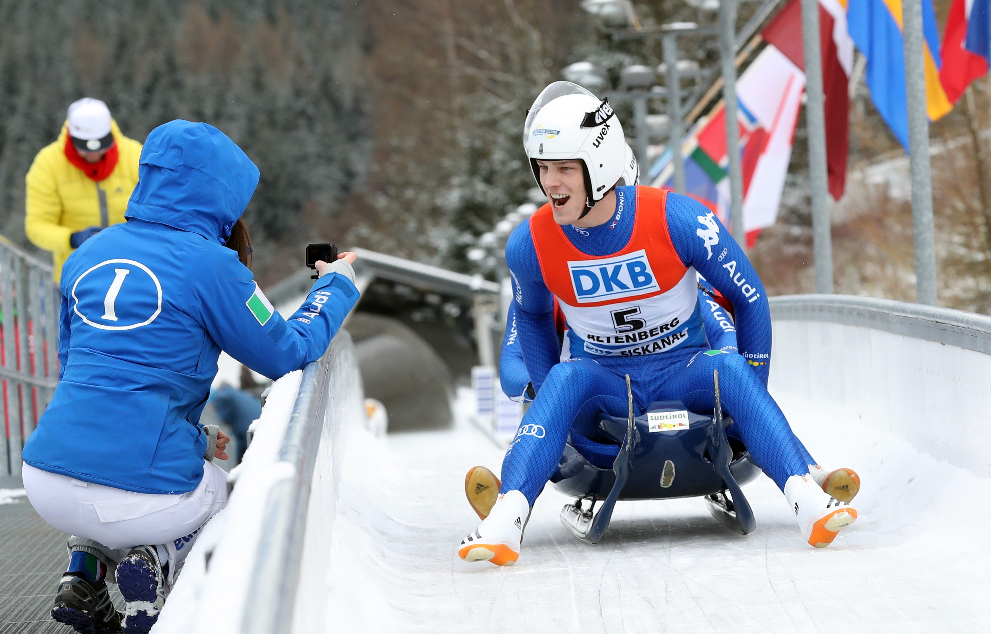 33rd Junior World Championship Luge, Altenberg 2018: Ivan Nagler, Fabian Malleier